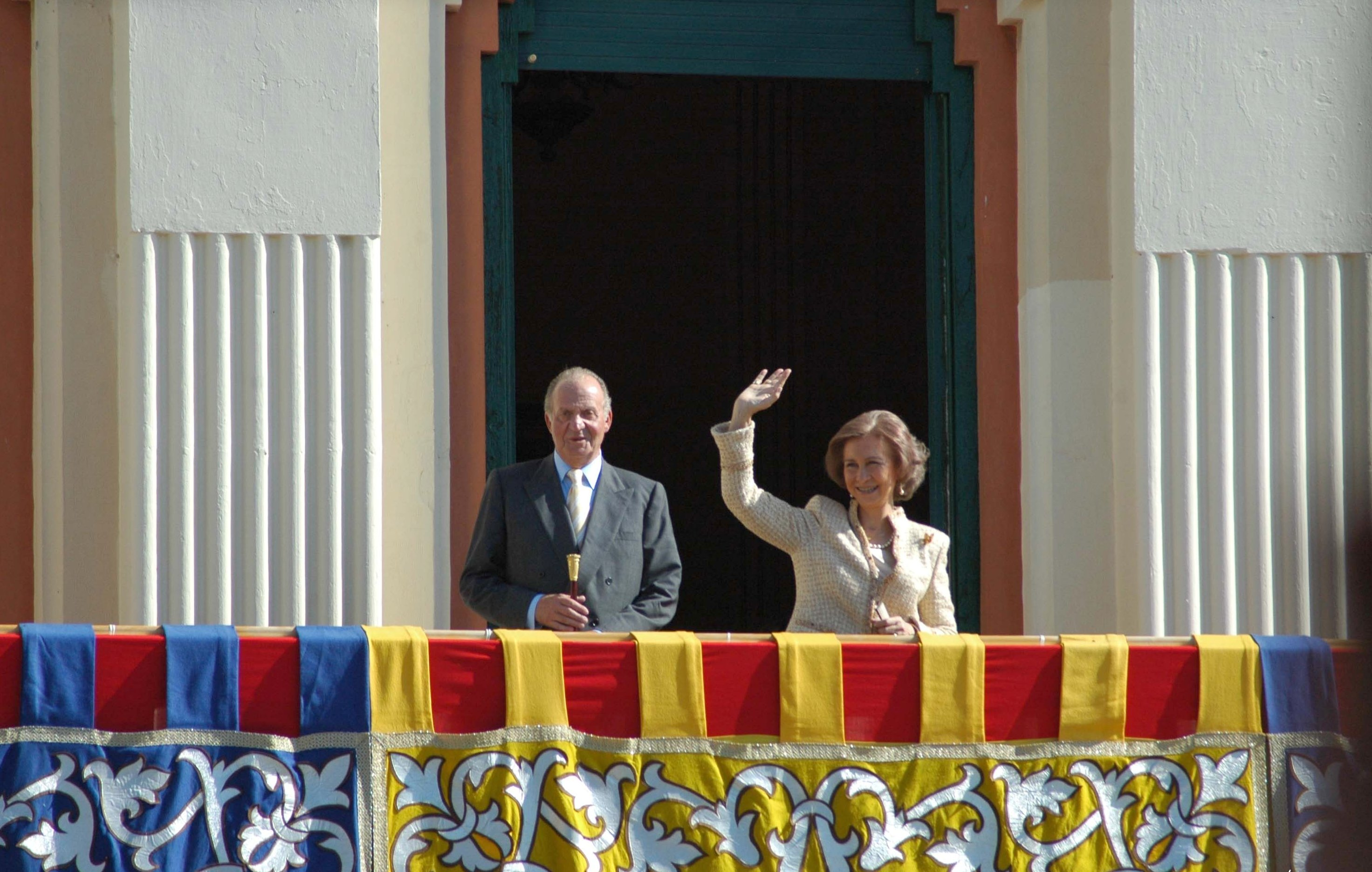 Mis Reyes